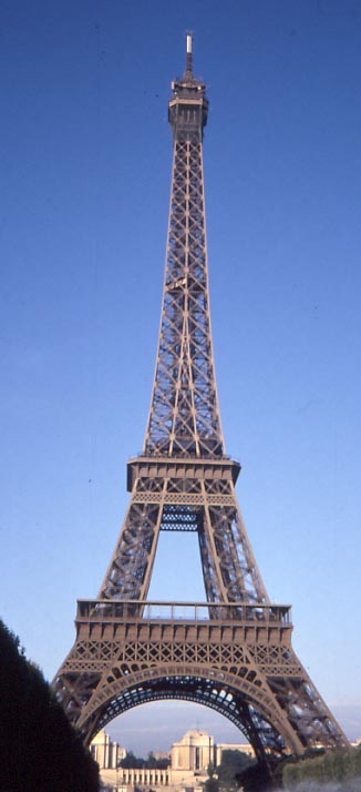 Eiffel Tower in Paris (France)